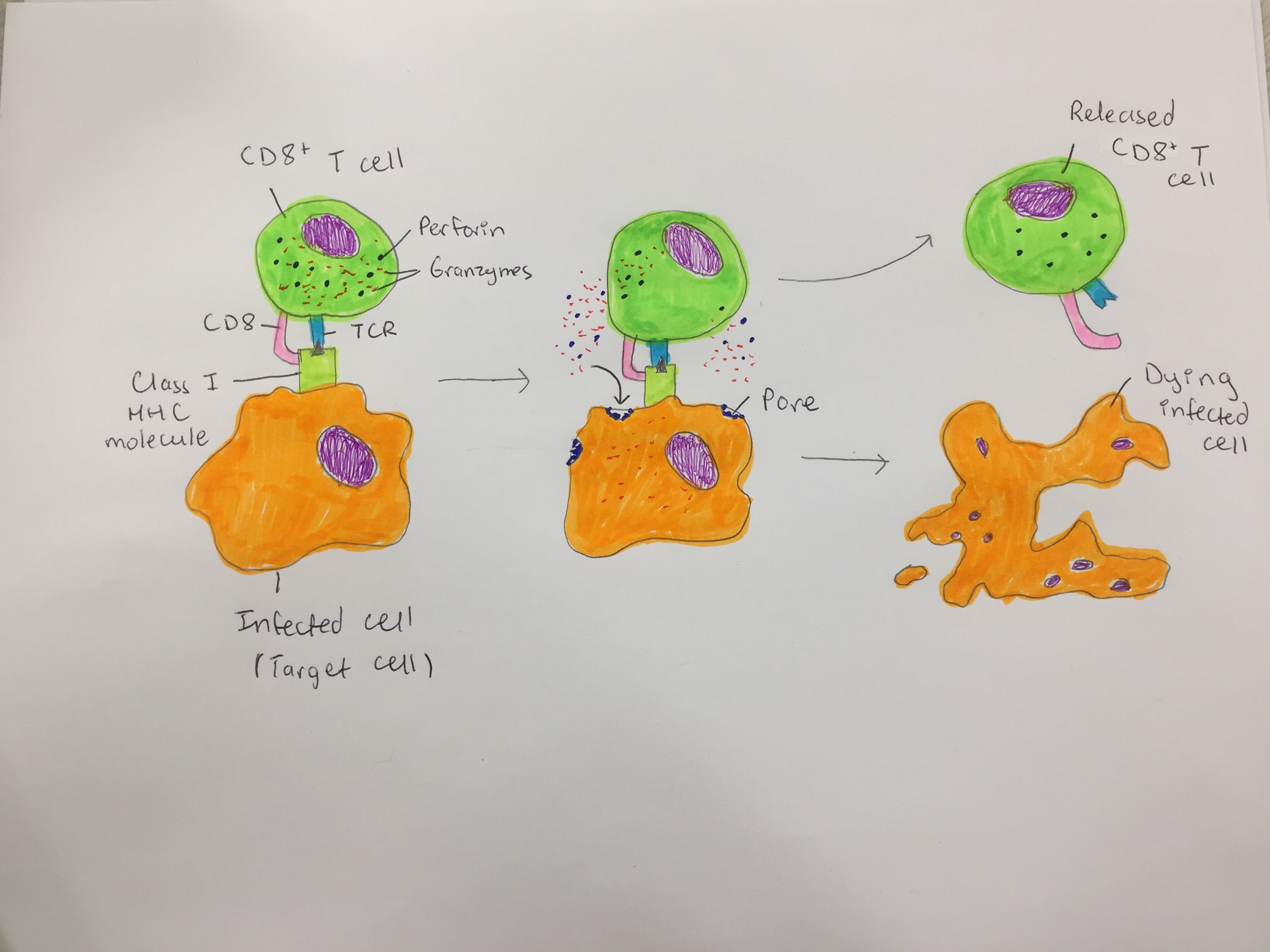 Mechanism of CD8+ T cell destruction of infected cells.